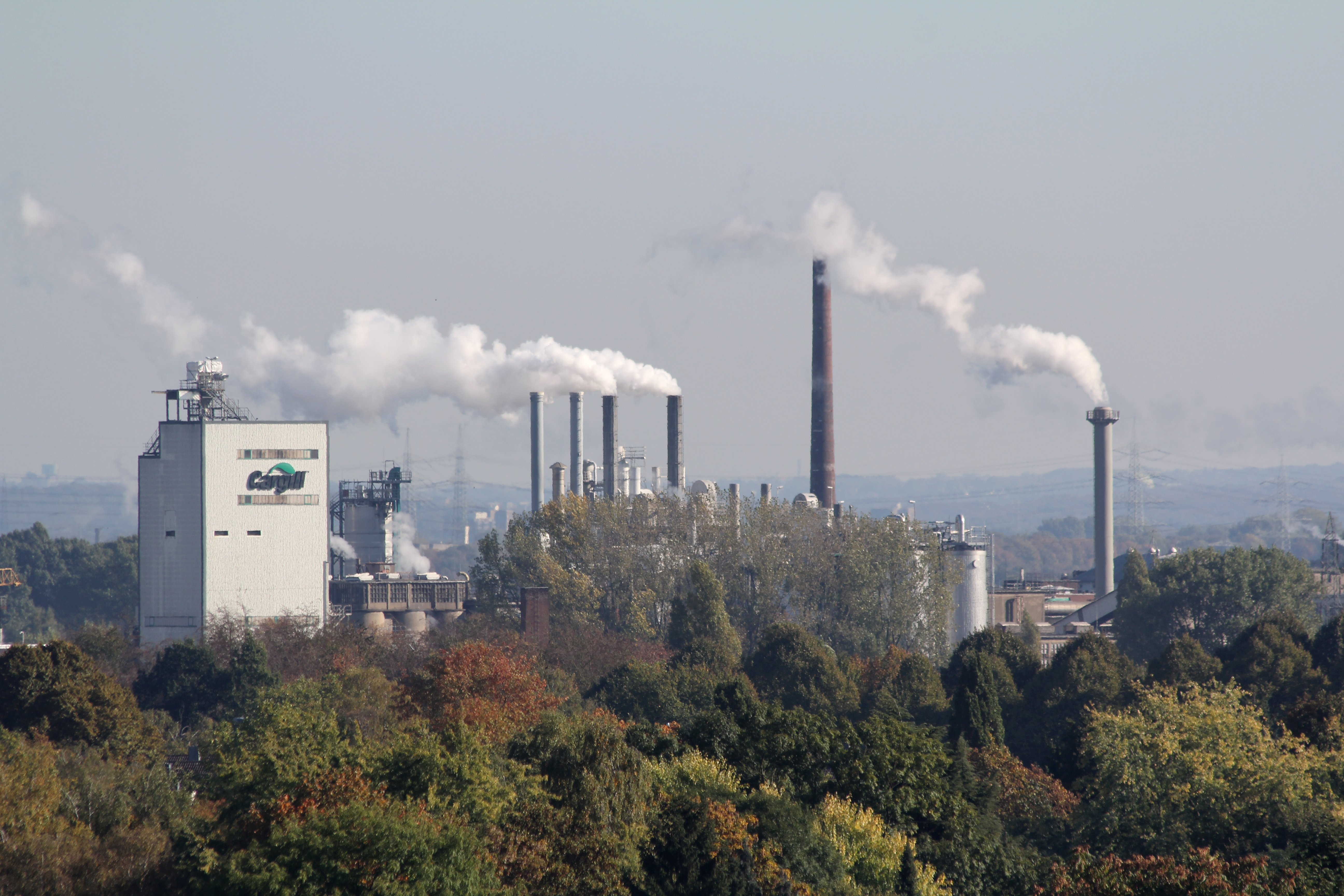 Cargill plant in Krefeld, Germany. View from Burg Linn.